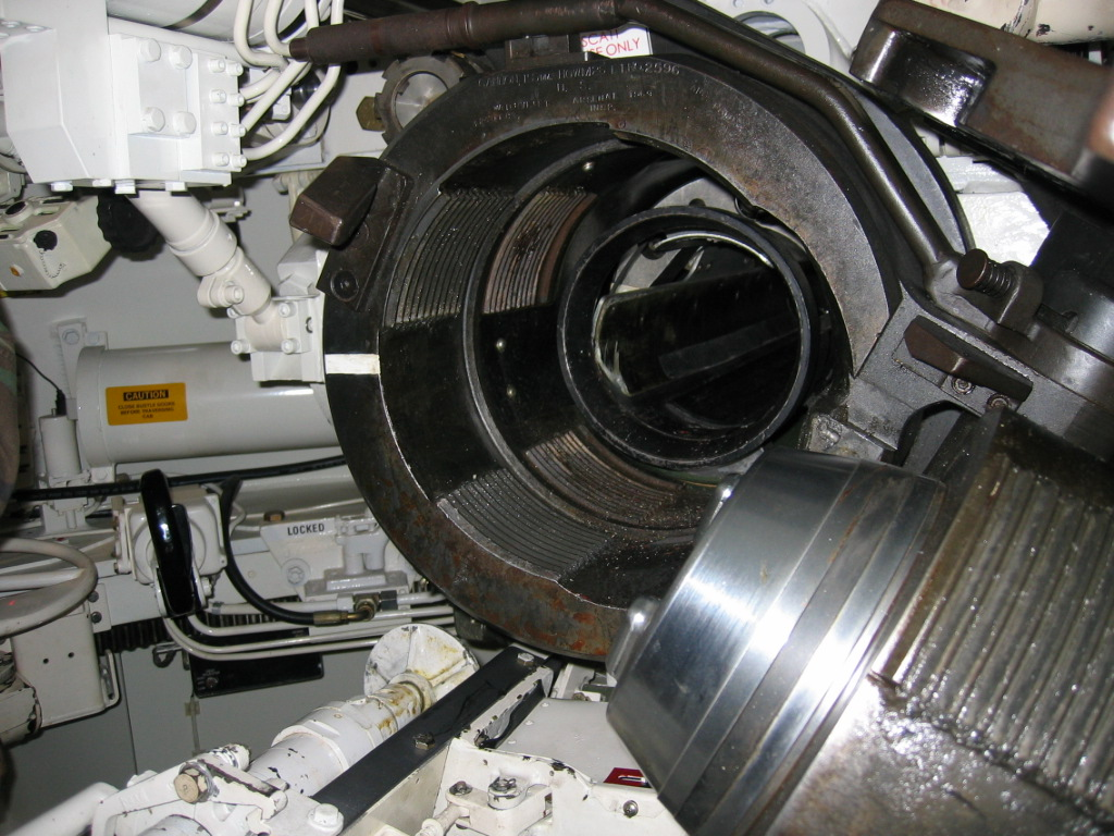 Breech end of M109A5 howitzer tube (M284 type). Visible are gunner's hand controller, manual turret traverse wheel, and hydraulic ramming assembly in stowed position. This image shows a dirty and rusty breech how they shouldn't look like.